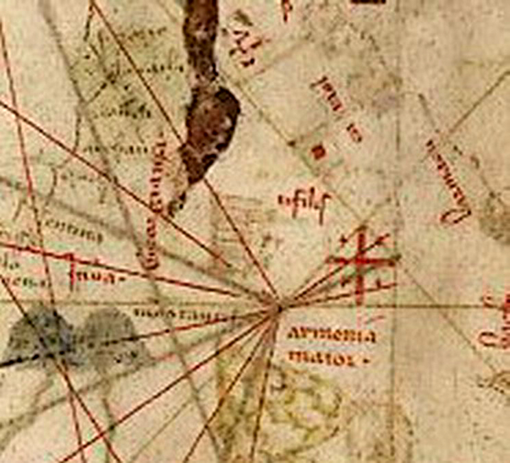 Cropped area of Angelino Dulcert Map, showing "five-cross flag" over Tbilisi.